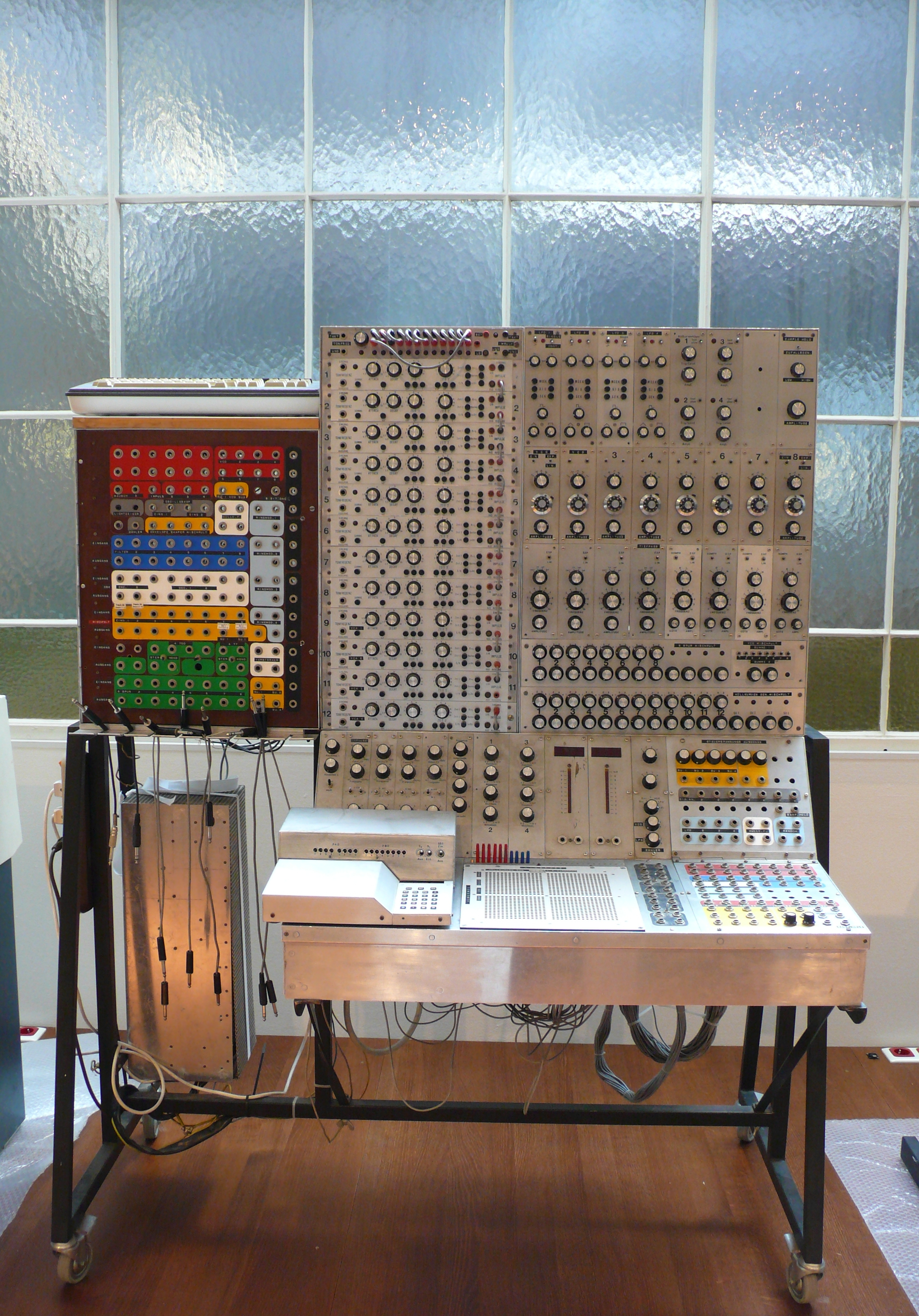 Hönig-Synthesizer in Technisches Museum Wien. Heinz Hönig, Graz from 1965 References Hönig-Synthesizer, Zauberhafte Klangmaschinen (2008-2009), Institut für Medienarchäologie